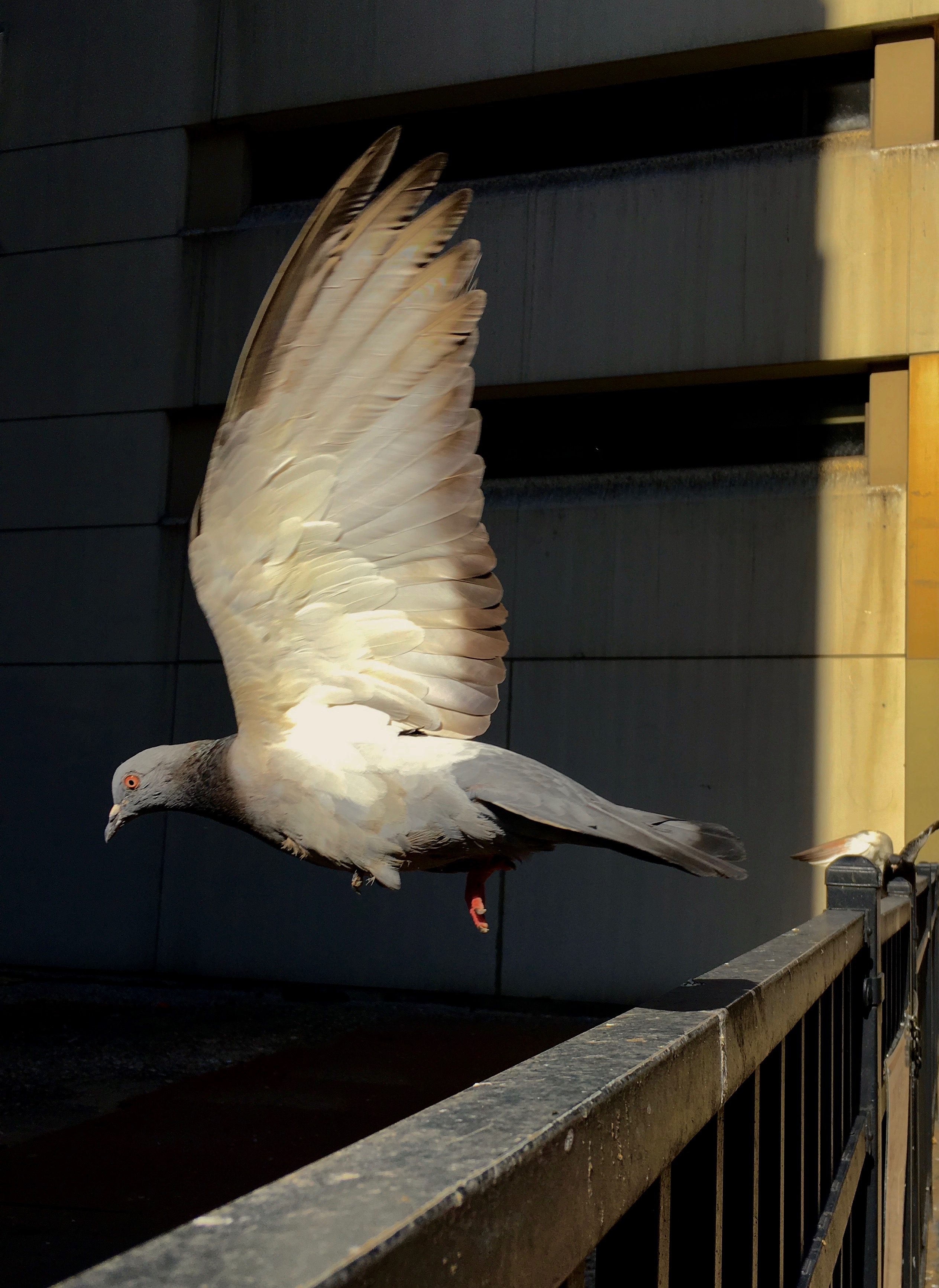 Pigeon taking off of a fence in Chicago